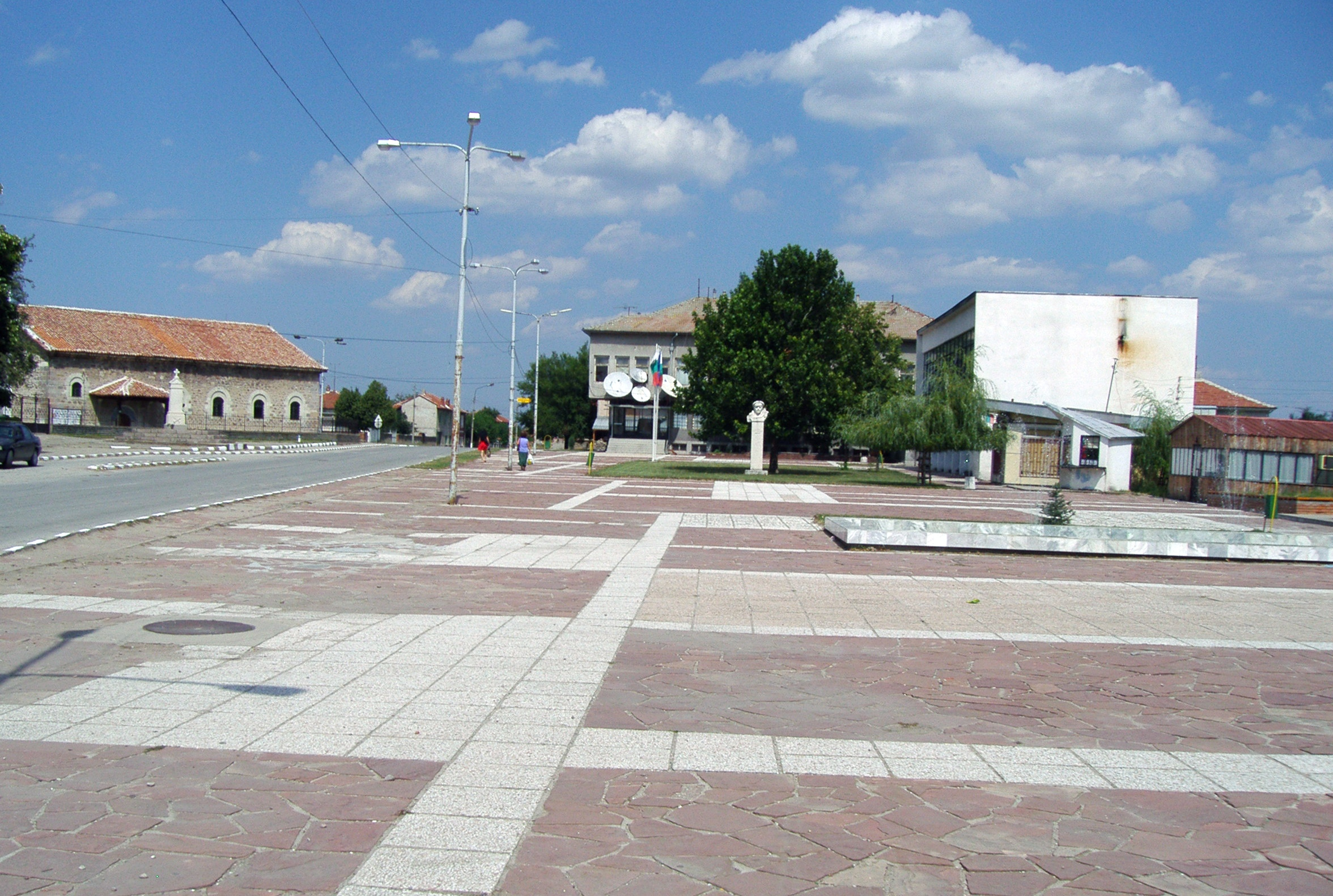 The centre of Dalbok Izvor village, Bulgaria